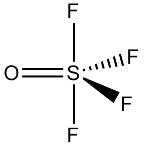 Sulfur oxytetrafluoride